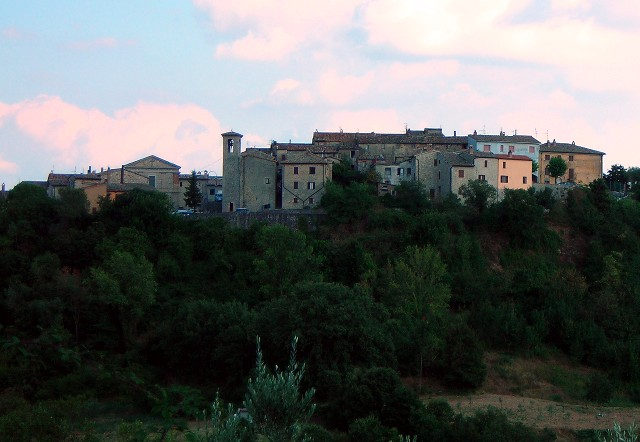 Collelungo, Baschi, Terni, Umbria, Italy